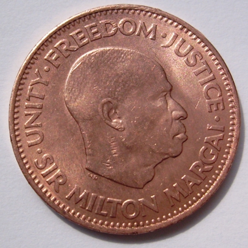 A 1964 Sierre Leone half cent coin. Photo taken by the author.